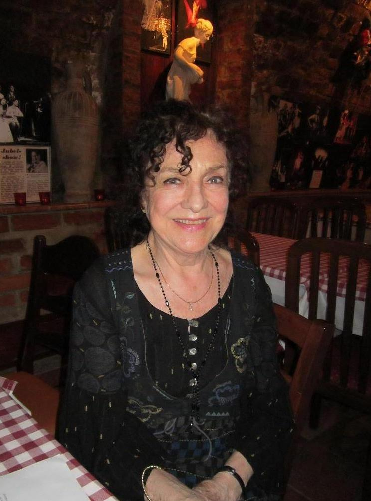 Swedish actress Gunvor PonténPlace: Kabarévalvet